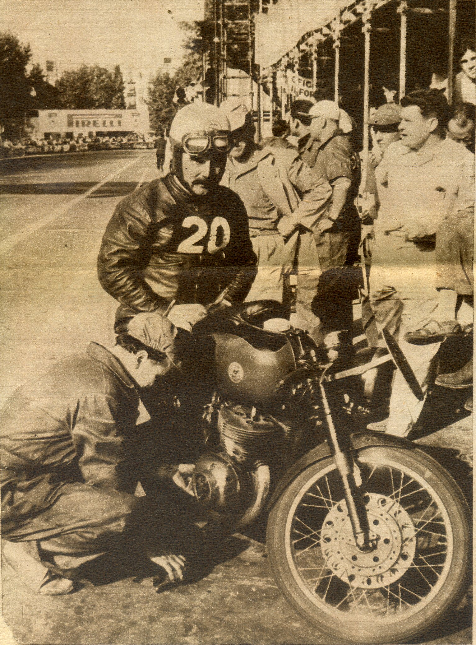 Simó Pou on his Derbi 350 during the 1958 24 Hores de Montjuïc